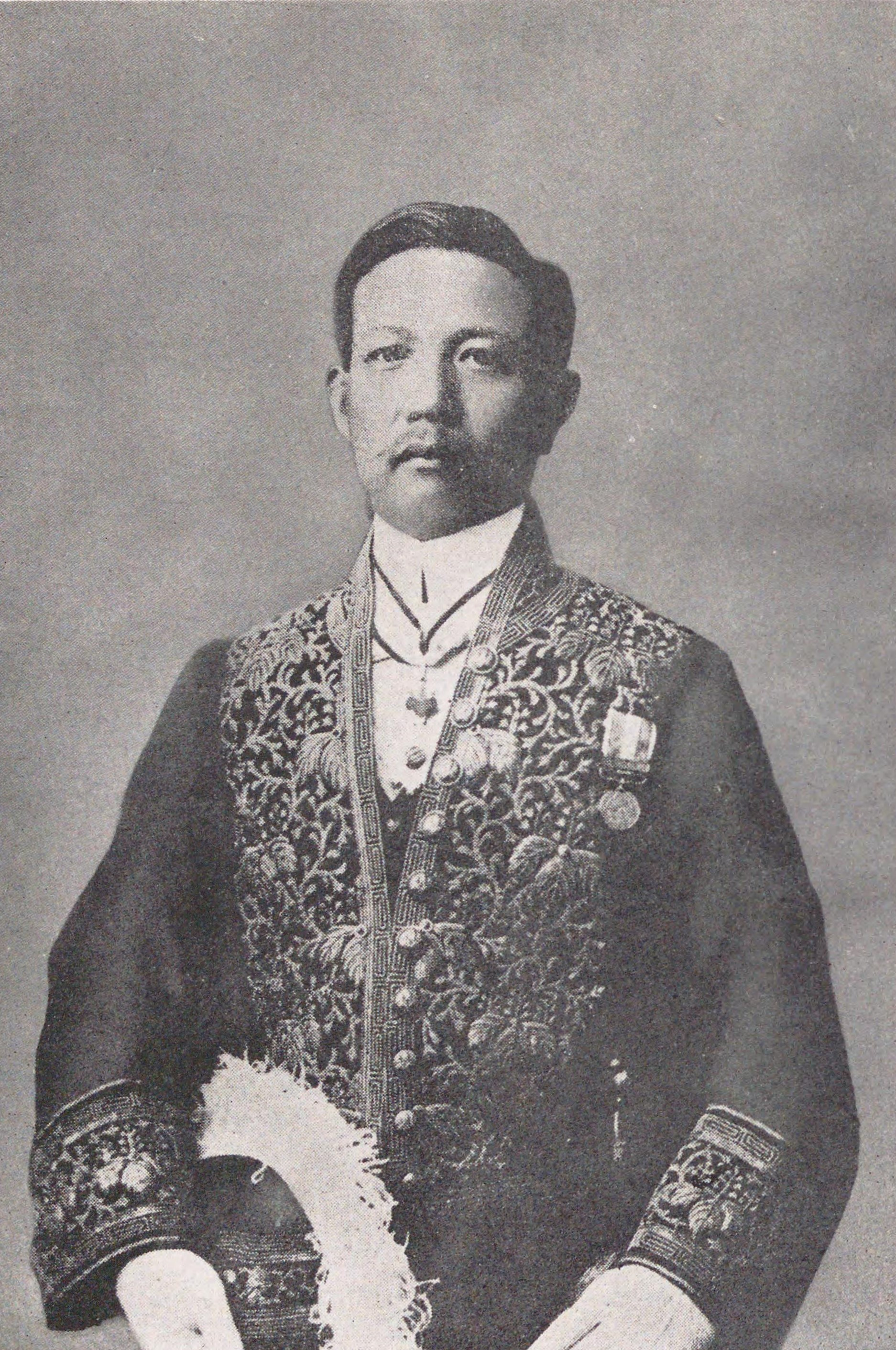 Imaizumi Kaichirō in 1907.